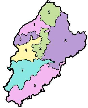 Eight Towns of Faisalabad under the jurisdiction of City District Government, Faisalabad. 1. Lyallpur Town, 2. Madina Town, 3. Jinnah Town, 4. Iqbal Town, 5. Chak Jhumra Town, 6. Jaranwala Town, 7. Samundari Town, 8. Tandlianwala Town.